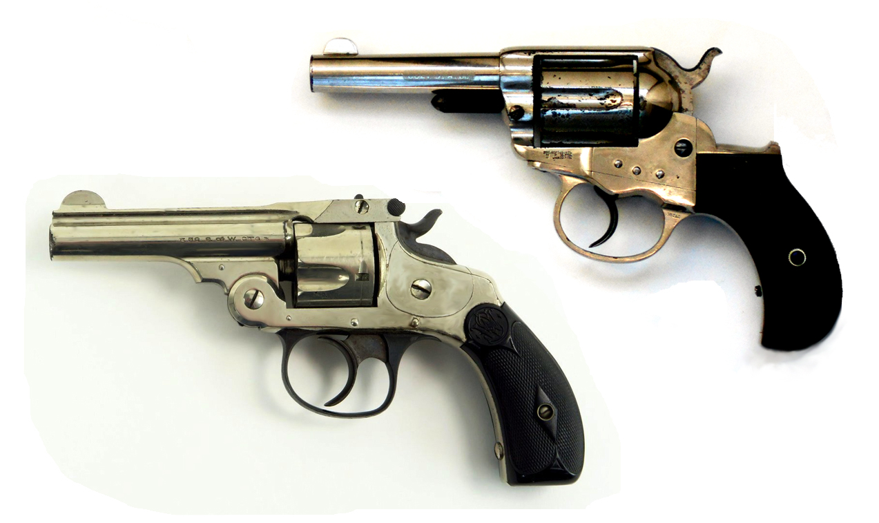 S&W & Colt Pocket